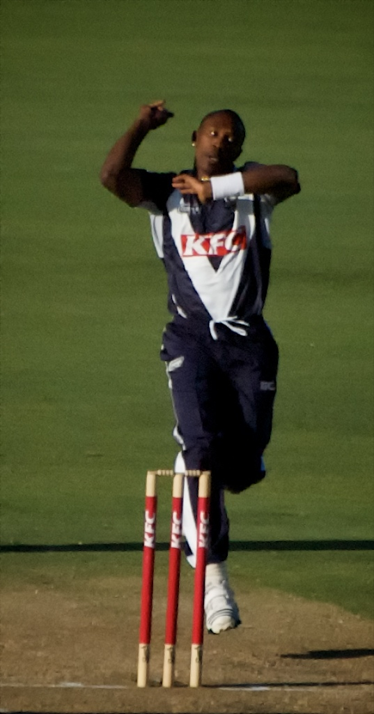 Dwayne Bravo at KFC Twenty20 BigBash - WA v VIC, 10 January 2010, WACA Ground